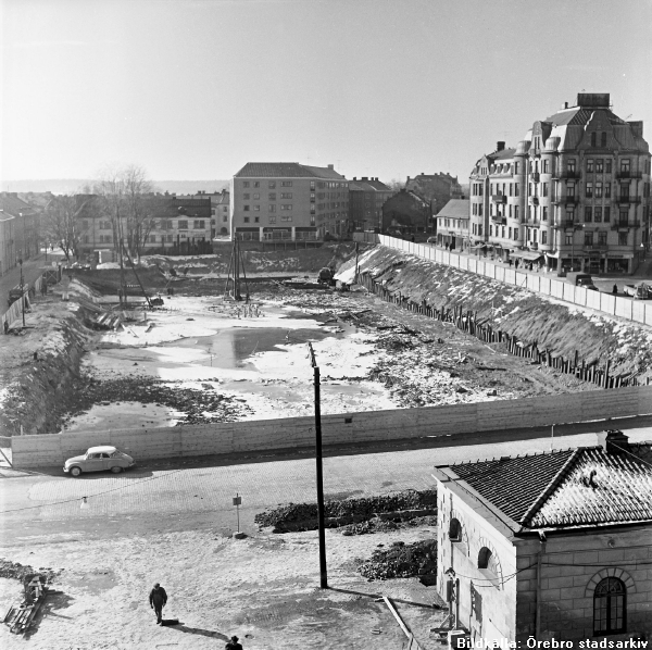 Krämaren, Örebro, building place